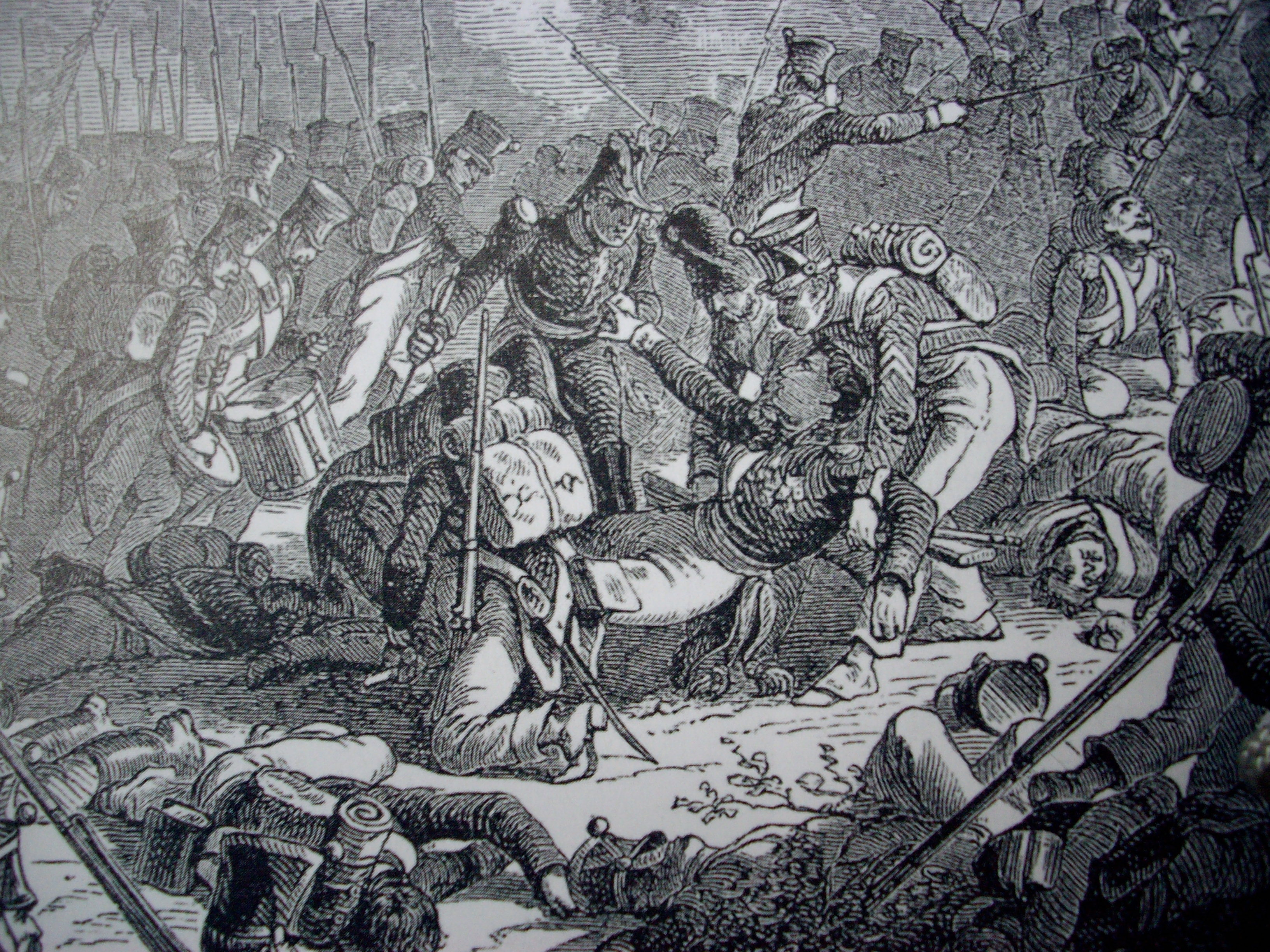 Death of the general Gudin at the battle of Valutino (1812)